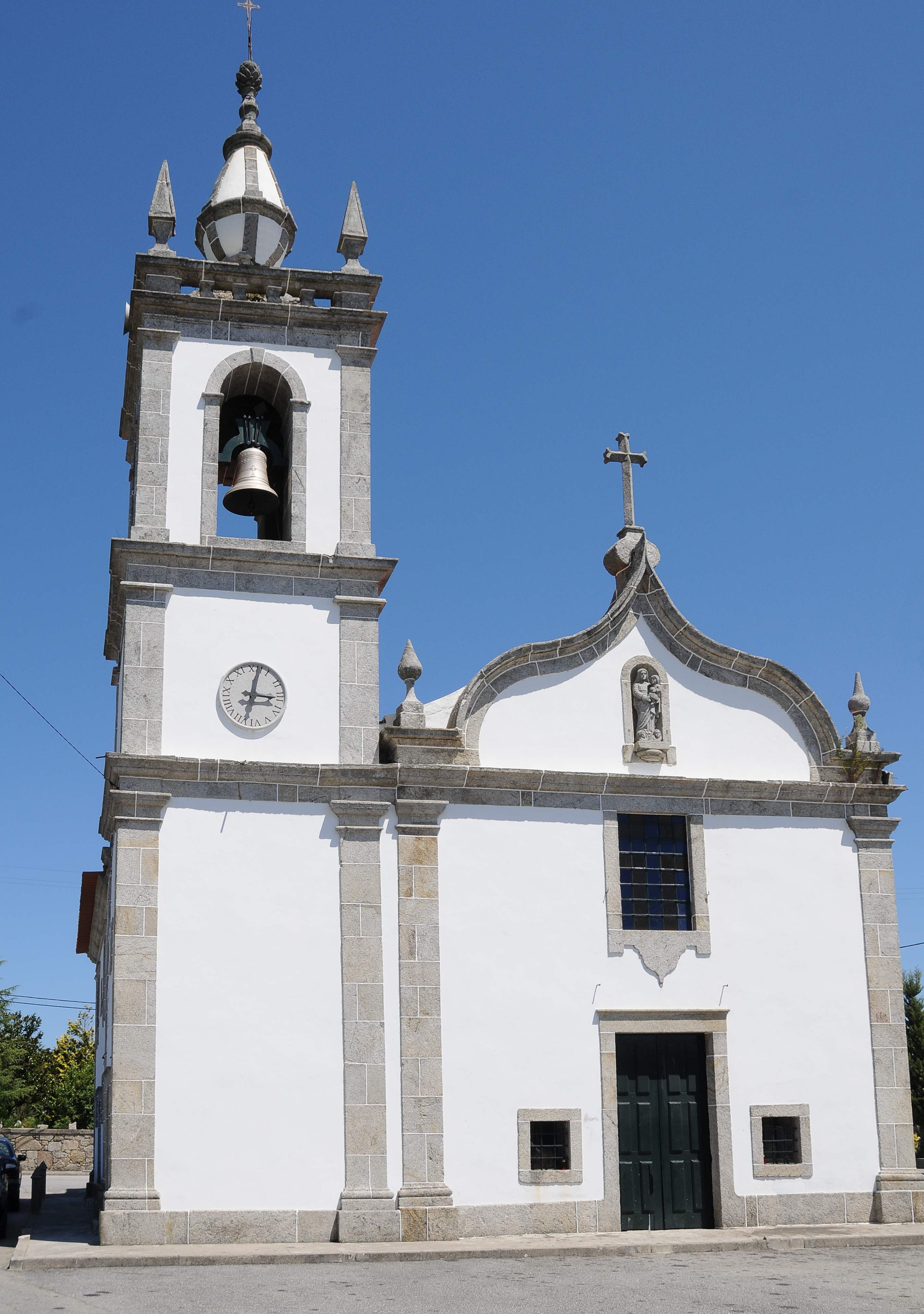 Perelhal Church, Barcelos, Portugal.